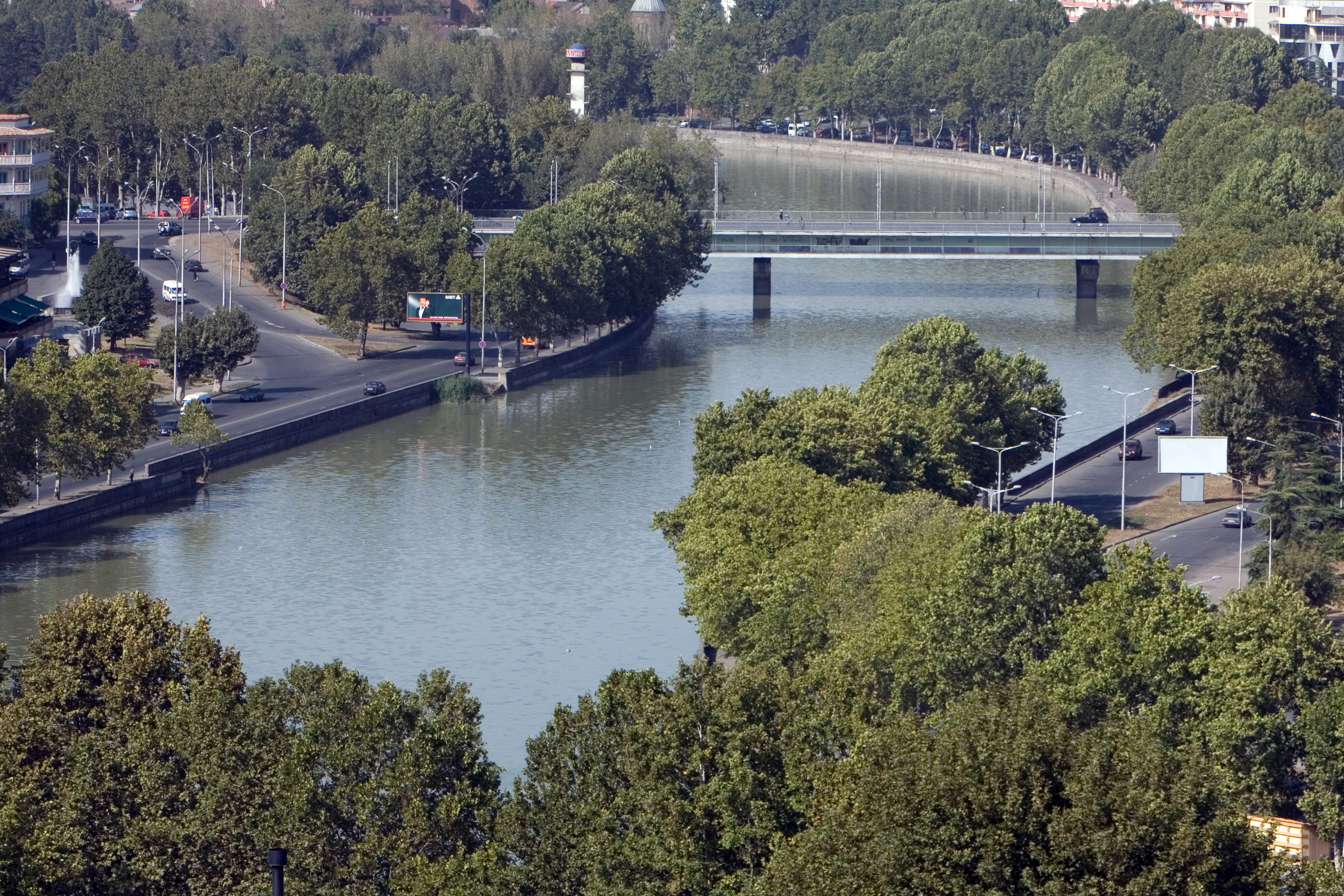 Nikoloz Baratashvili Bridge (named after the Georgial poet Nikoloz Baratashvili) over Kura (Mtkvari) River in Tbilisi, the capital of Georgia. Photo taken from Narikala fortress hill, looking upstream the river